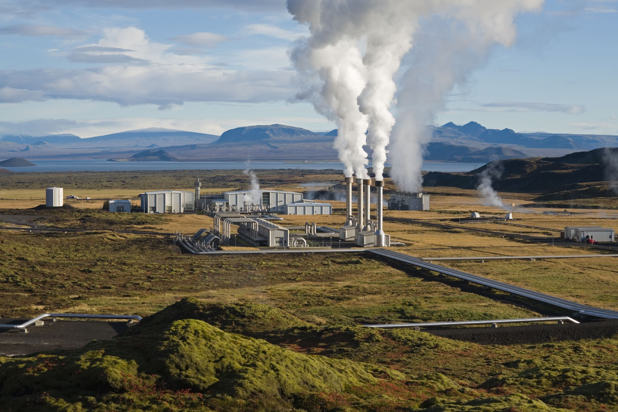 The Nesjavellir Geothermal Power Plant in Iceland